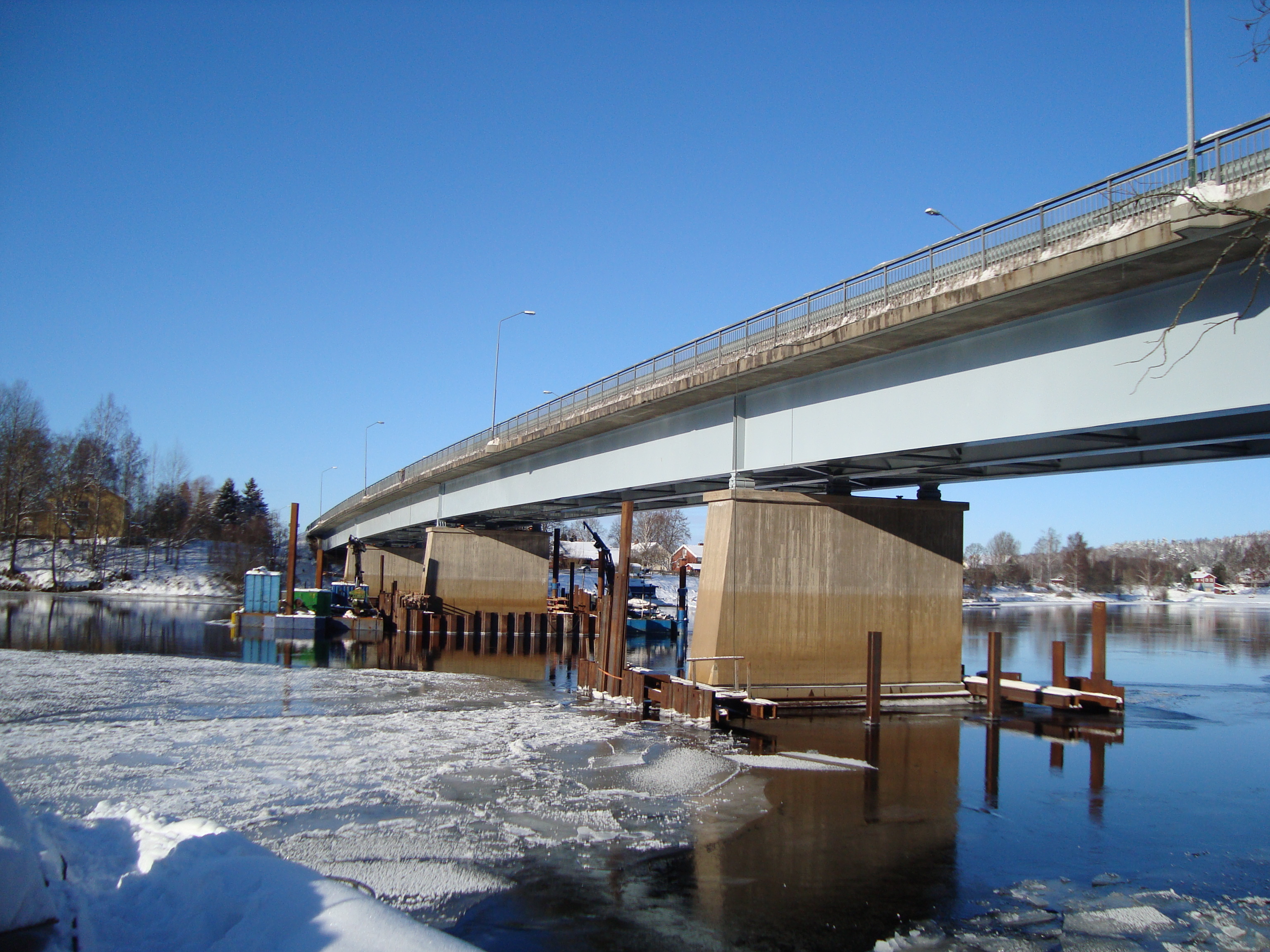 Reparation work of the bridge over river Dalälven at Fäggeby, Säter municipality.